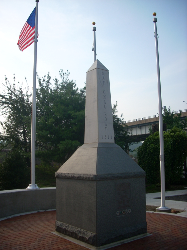 Cumberland National Road monument marking the starting point of the Road in 1811